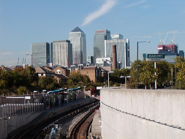 Docklands Light Railway - Mudchute Station. View north from the Mudchute DLR station looking towards the Canary Wharf towers which now dominate the scene in all parts of the Isle of Dogs.